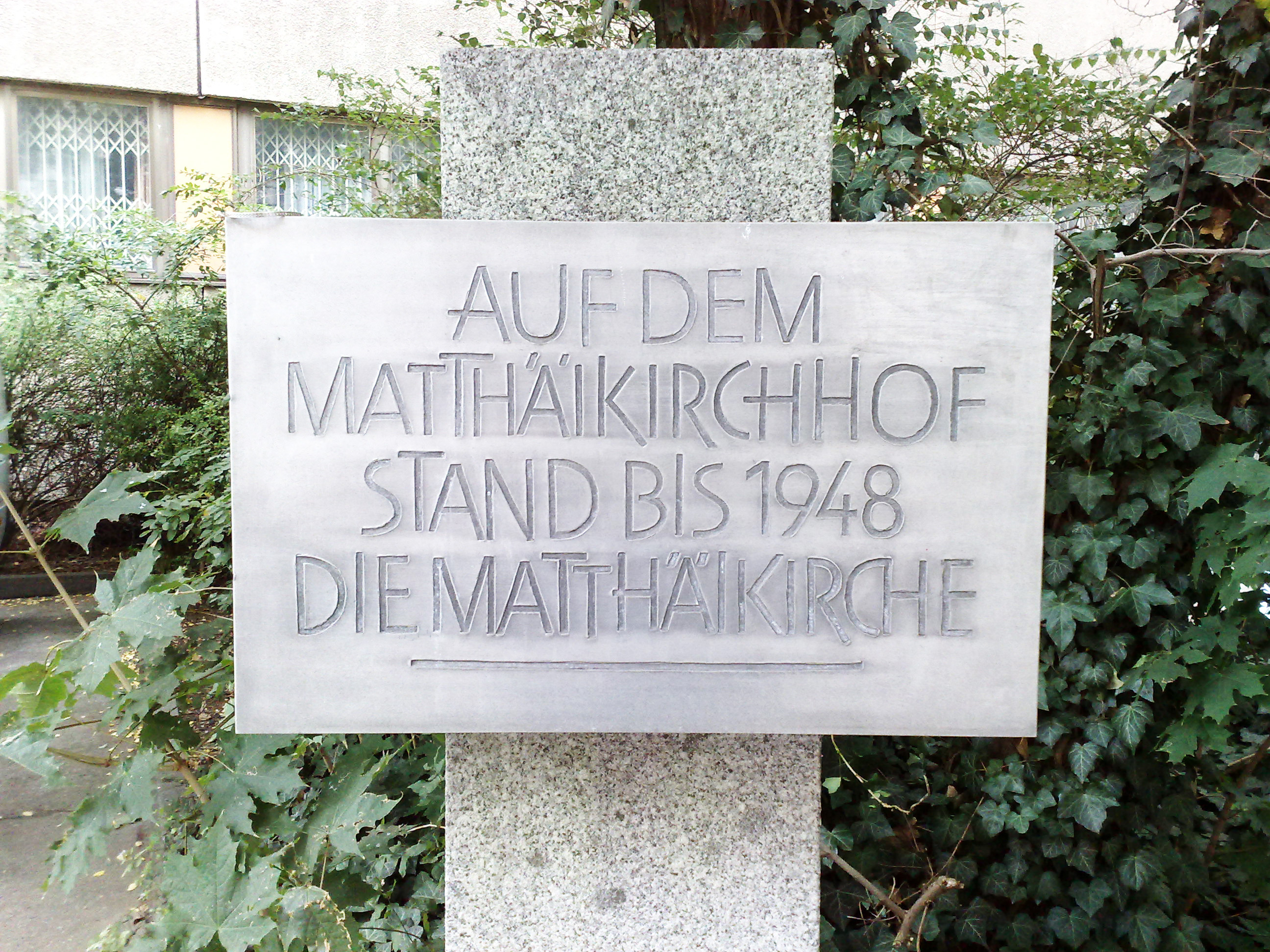 Plaque in memory of the former Matthäi Church at this place in Leipzig, destroyed in World War II.